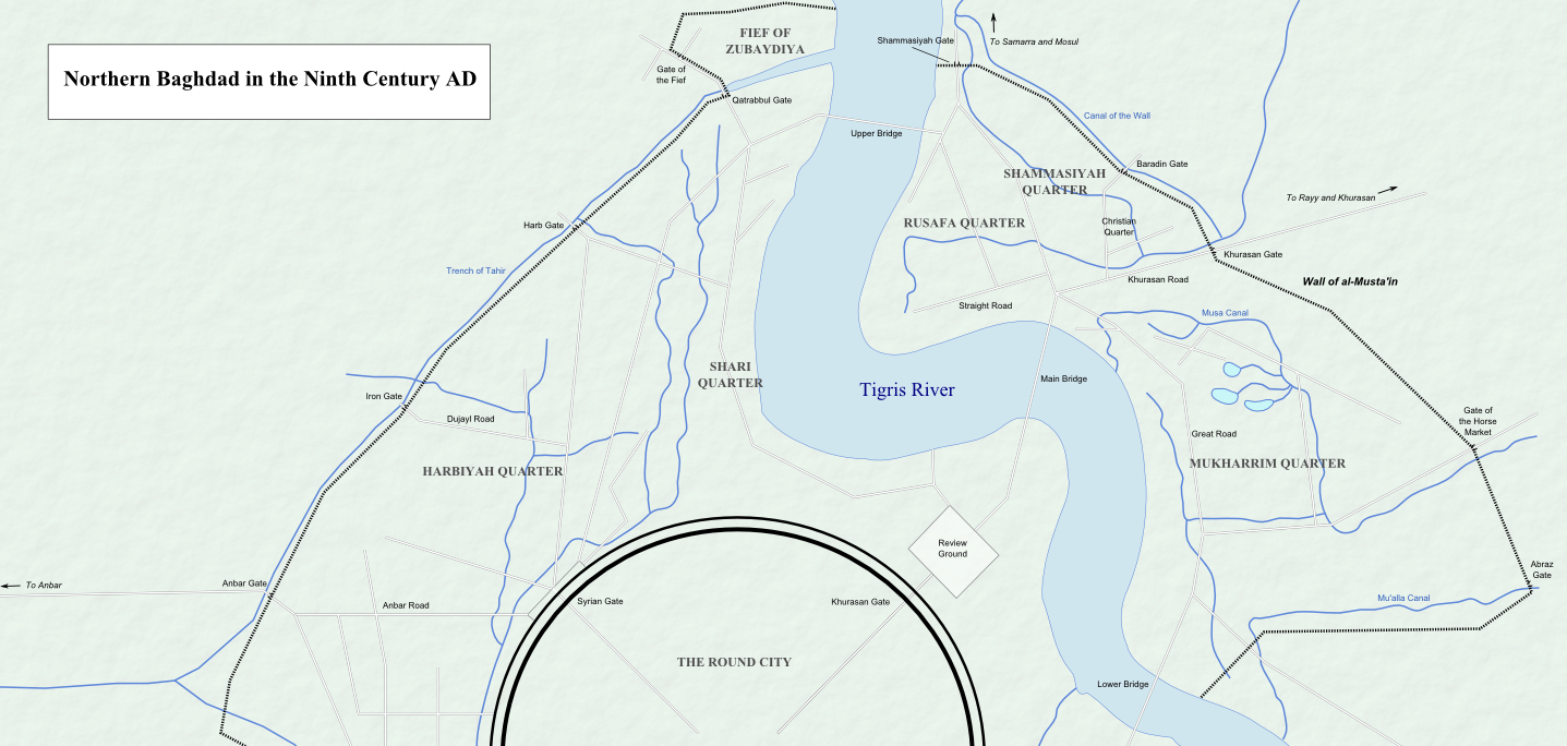 Map of northern Baghdad in the ninth century AD. This map is largely derived from the following source: Le Strange, Guy. Baghdad during the Abbasid caliphate. Oxford: Clarendon Press, 1900.